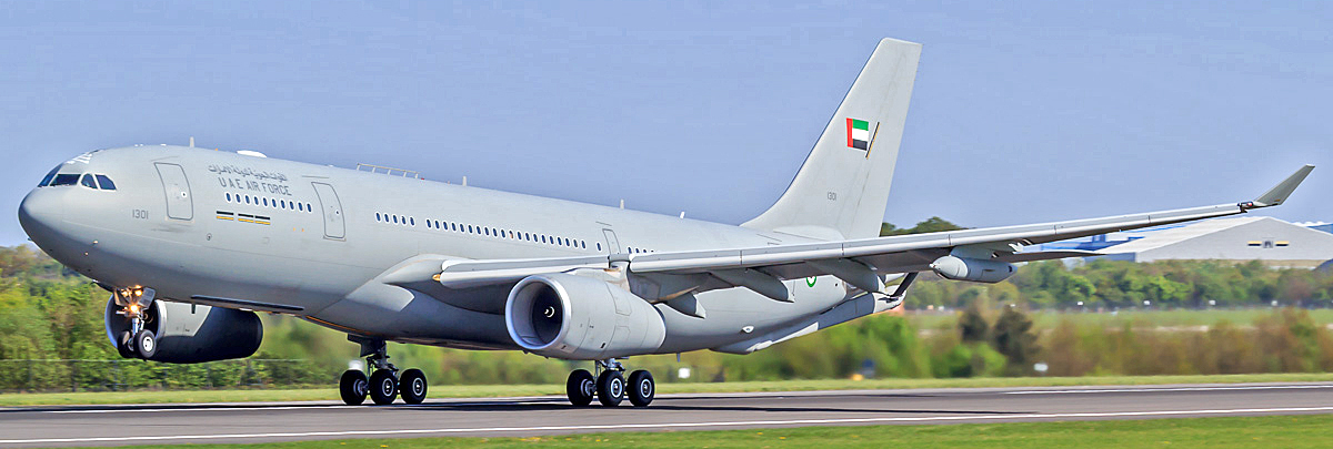 United Arab Emirates Airbus A330 MRTT taking off at Manchester Airport